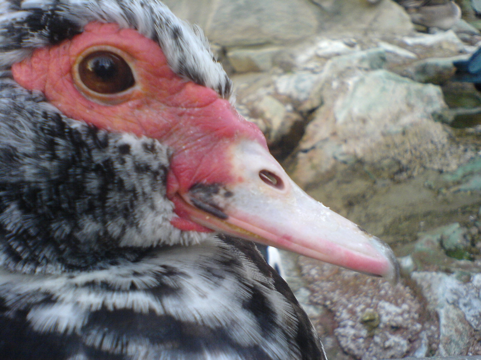 Head shot of Cairina moschata, Mellat Park, Tehran/Iran